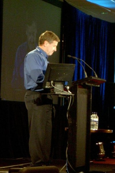 John Fletcher, CML CEO, giving a rousing speech at the CML IT event.